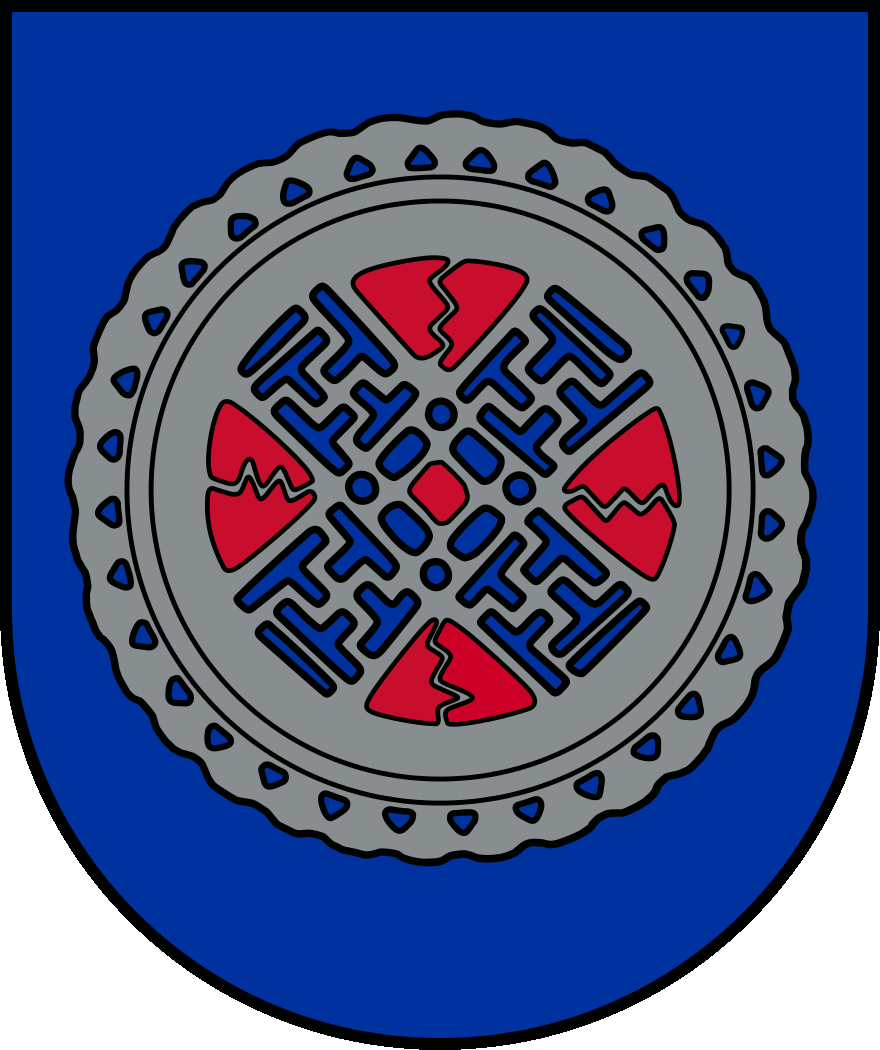 Registered 11 March 2014.